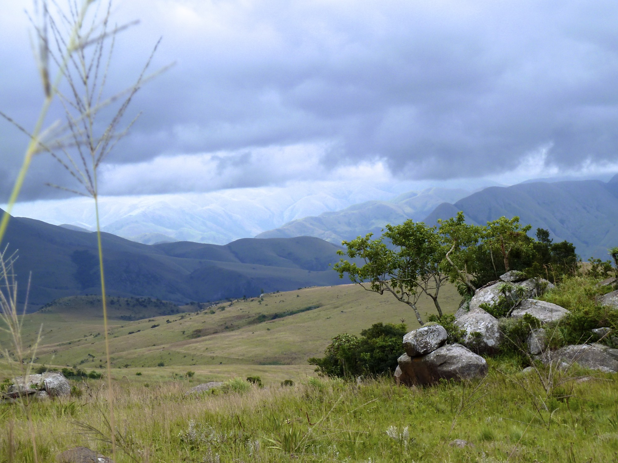 Malolotja Nature Reserve - Frokostudsigt